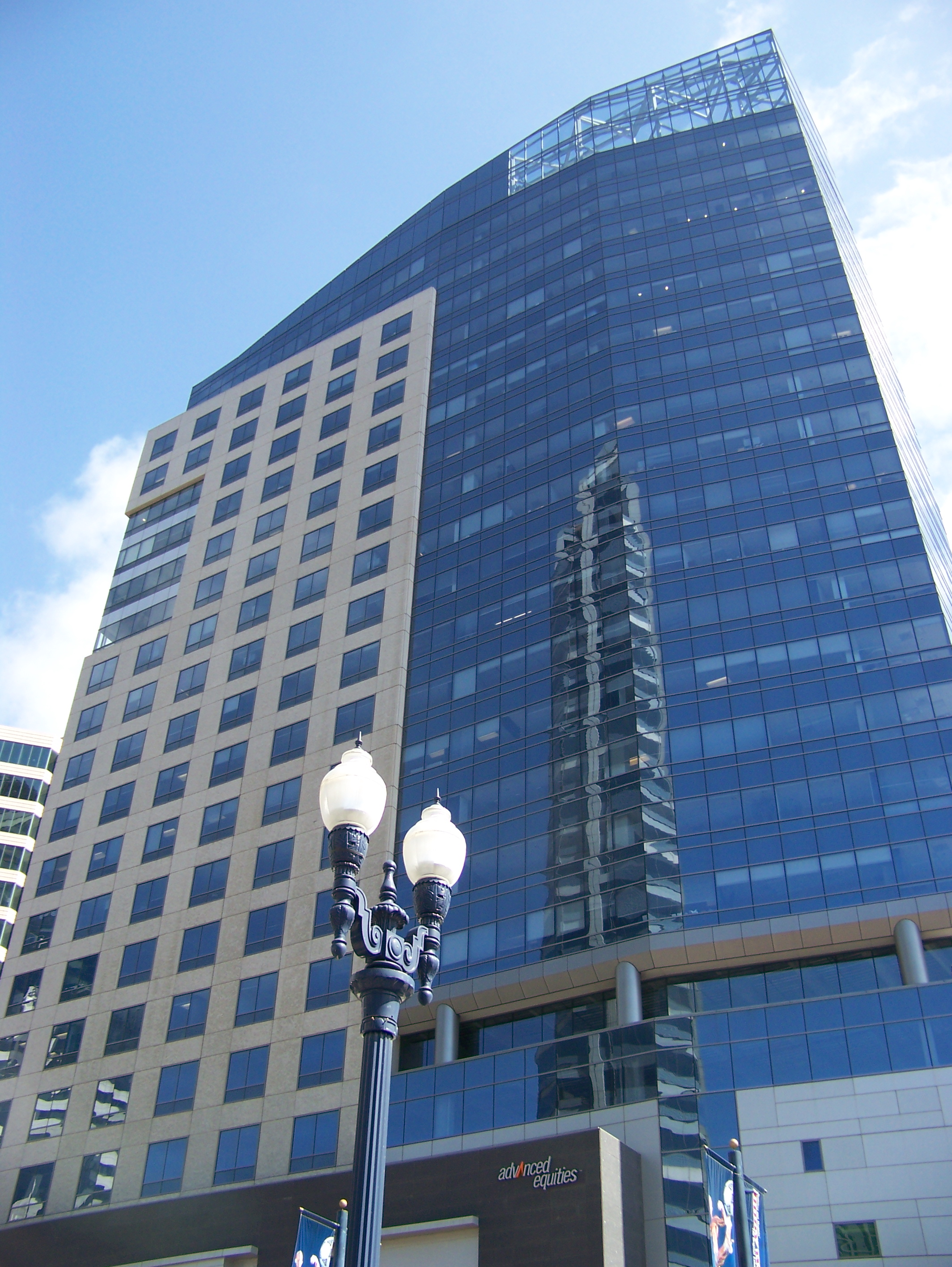 Advanced Equities Plaza skyscraper in San Diego, California. Construction of the building was completed in 2005.